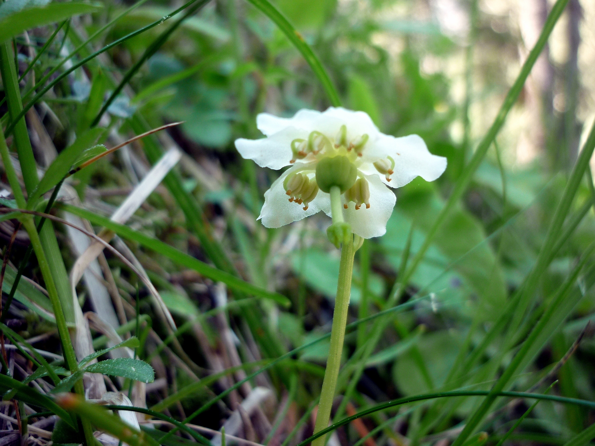 Pyrola uniflora. Flowering. Under the Prat de Cadí (Estana, Baixa Cerdanya - Catalunya). To 1.815 m. altitude.